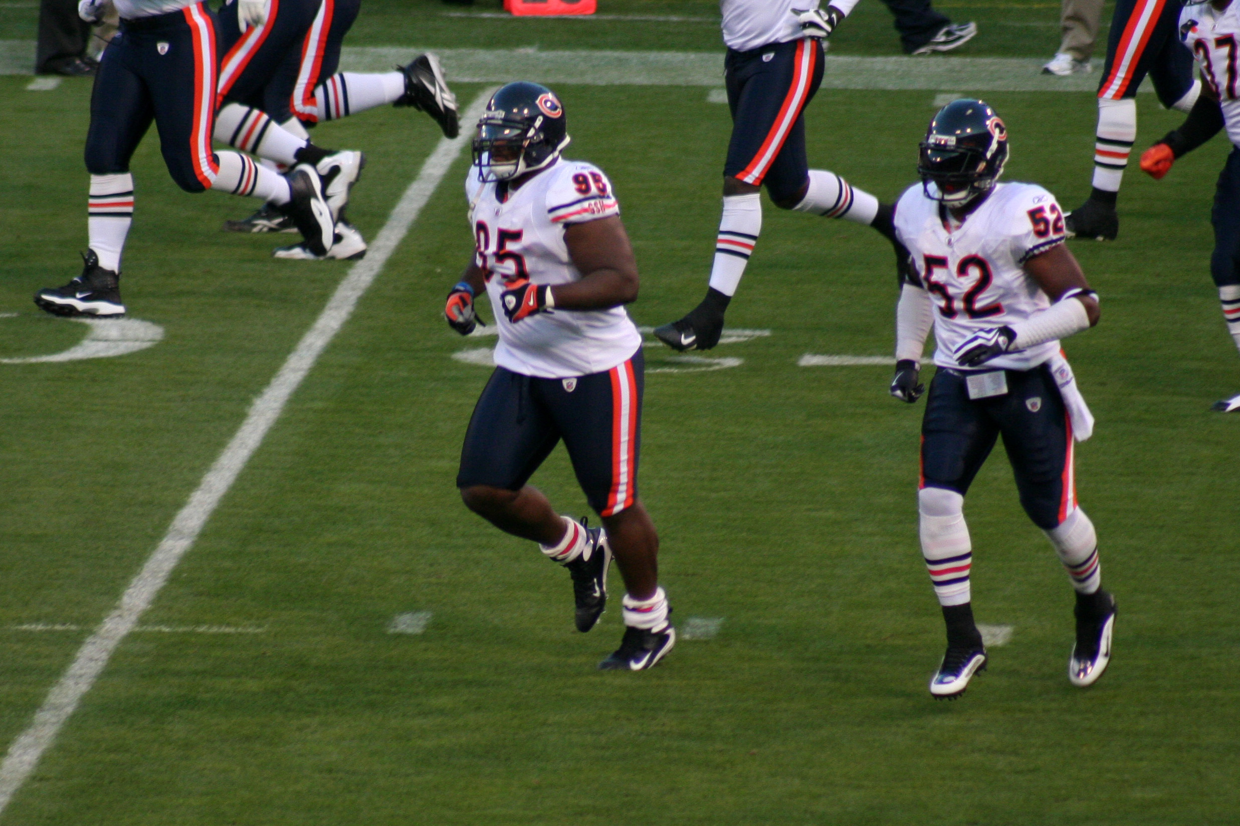 Anthony Adams (defensive tackle) and Jamar Williams (linebacker) of the Chicago Bears